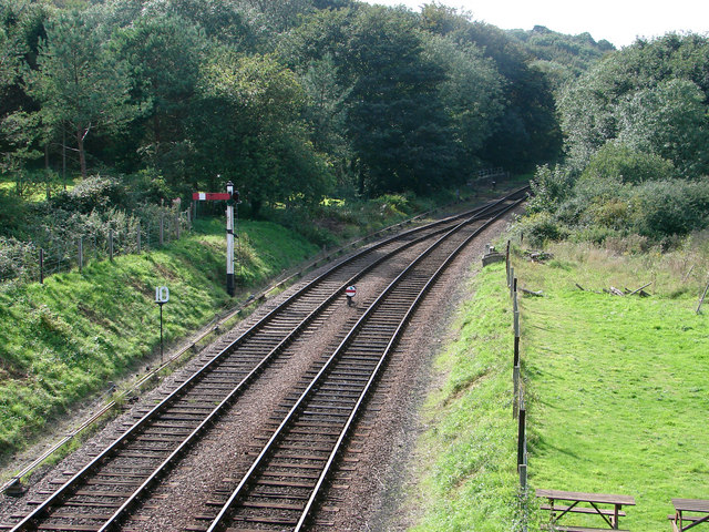 North Norfolk Railway, near to Weybourne, Norfolk, Great Britain. The view towards Holt from the road overbridge by Weybourne station.